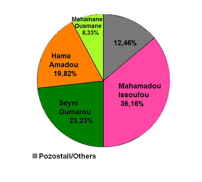 Results of first round's presidential elections in Niger, 31st January 2011.